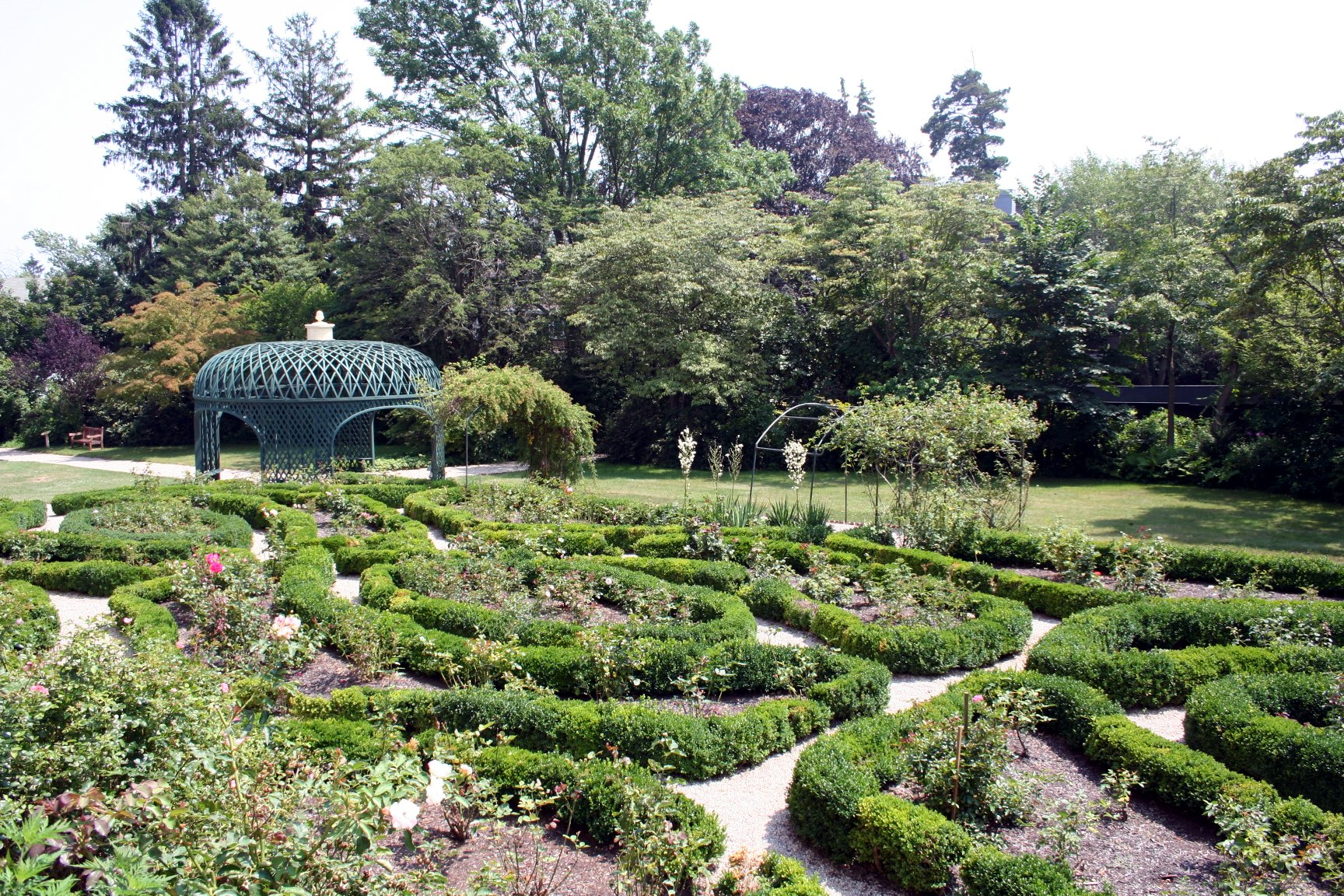 Photograph of the garden of the Rotch Jones House in the New Bedford Whaling National Historical Park in New Bedford, Massachusetts, United States of America taken by Rolf Müller.